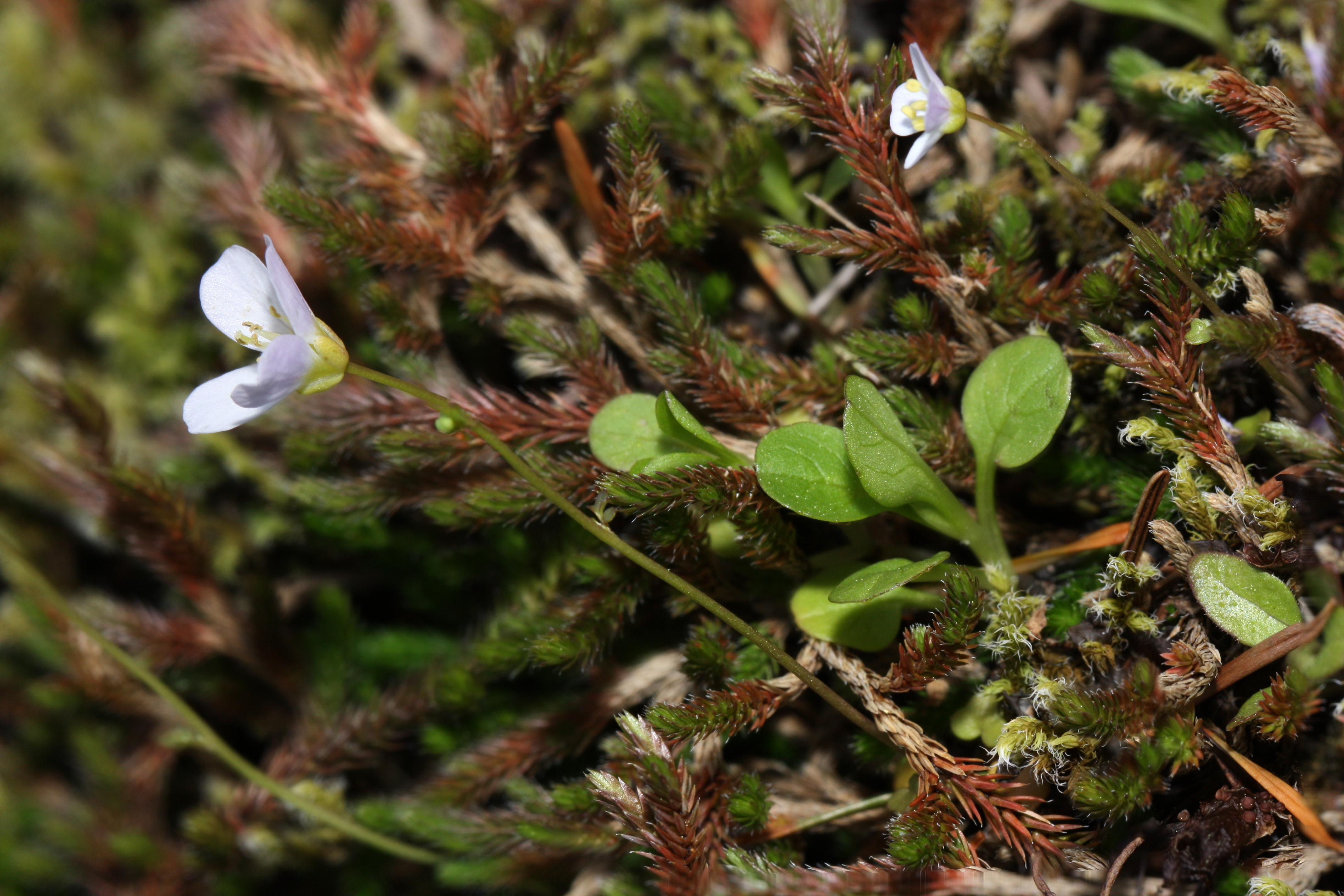 Saddle Mountain Bittercress Focus stacking (using Helicon Focus).Please see "Other versions" for source images. Viewpoint location: Saddle Mountain Trail, Saddle Mountain State Natural Area Viewpoint elevation: 673 meter (2208 ft) Location source: Garmin GPSmap 60CSx Location Datum: WGS84